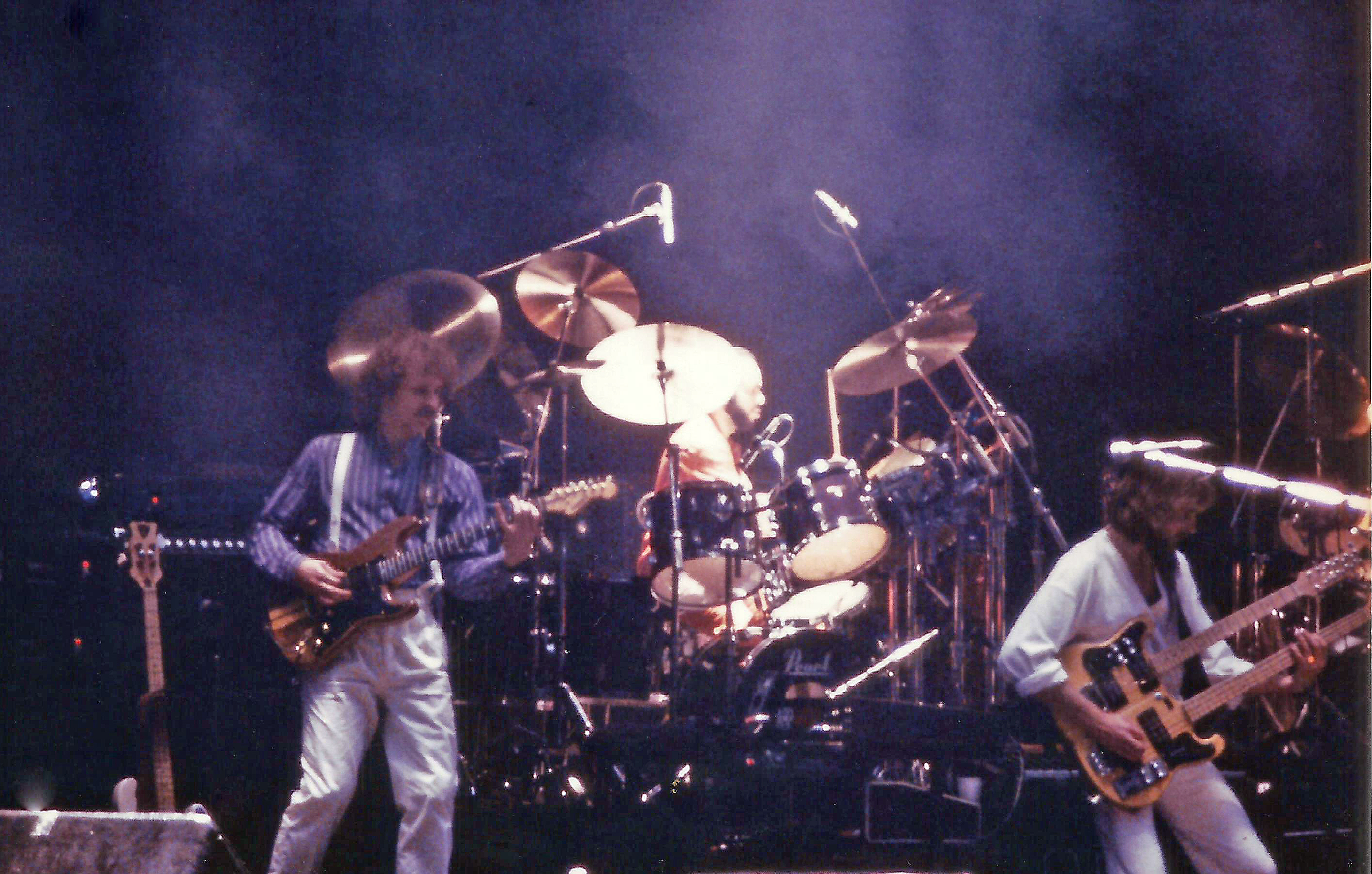 Daryl Stuermer, Phil Collins and Mike Rutherford, Liverpool Empire, Duke Tour 1980.